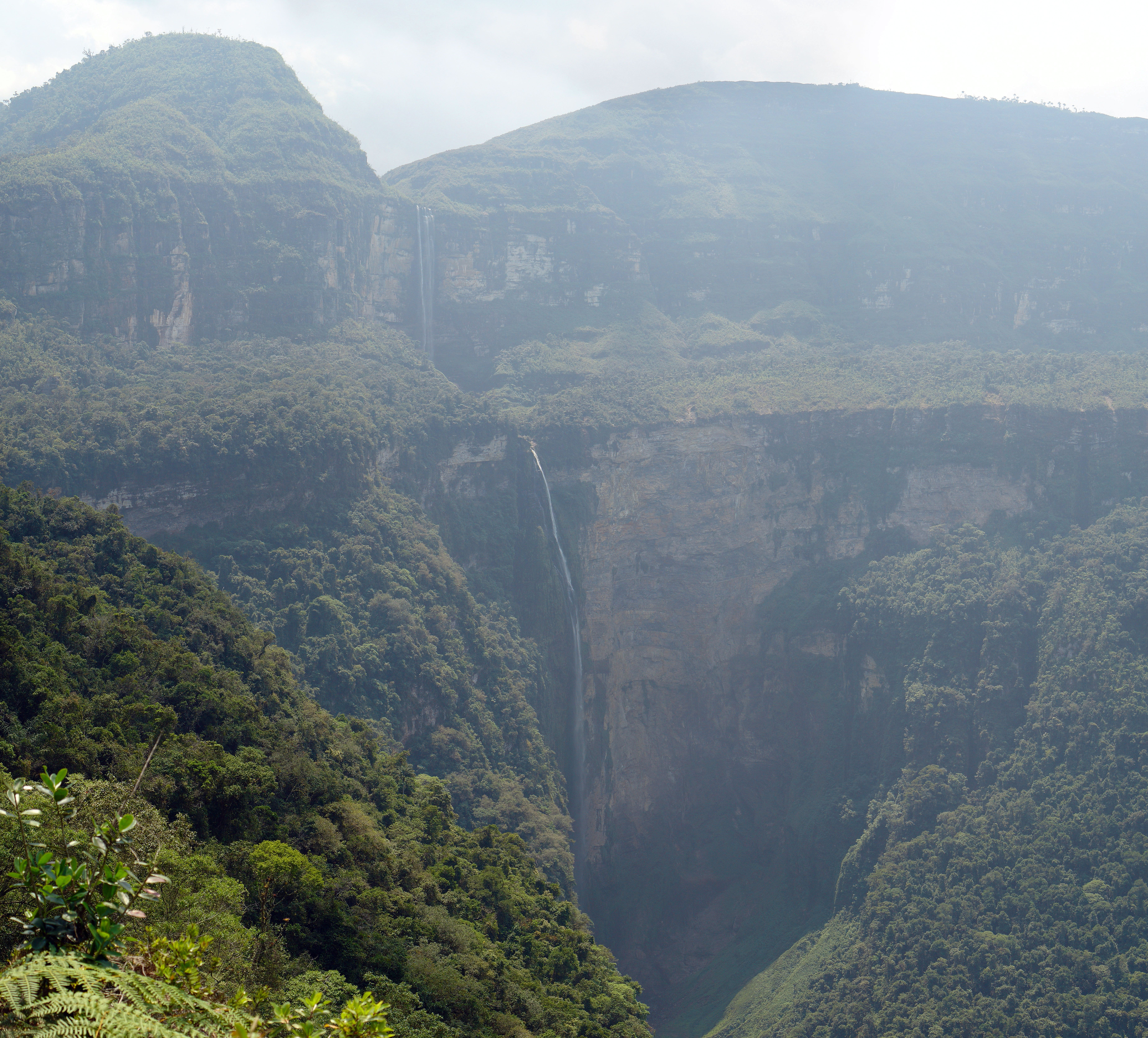 Gocta waterfalls, Peru